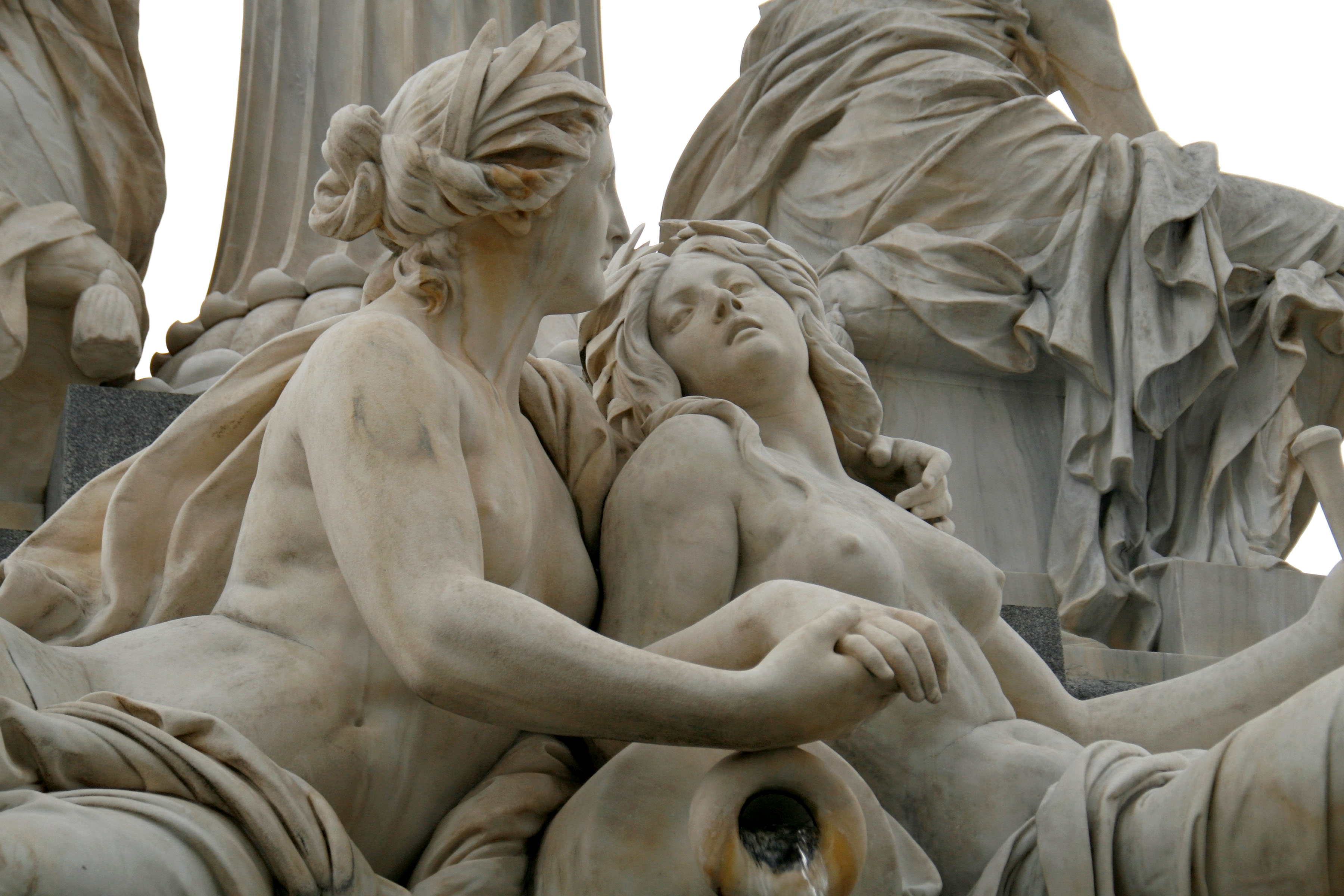 Pallas-Athene Fountain in front of the Austrian Parliament Building in Vienna: Allegorical depictions of the rivers Elbe (left) and Vltava.